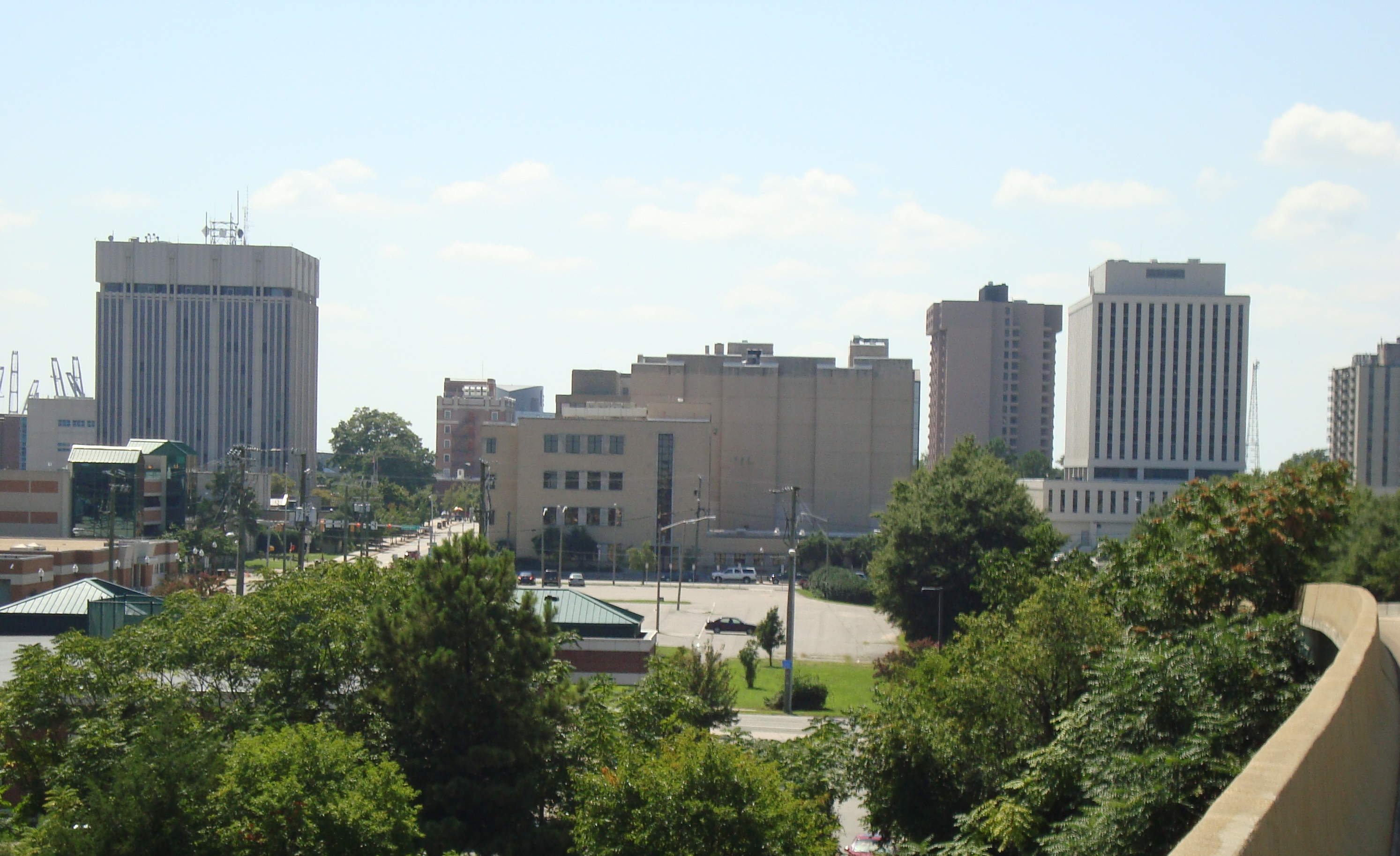 This is a picture as taken by me from the 26th Street Overpass of I-664 of downtown Newport News on August 30, 2013.